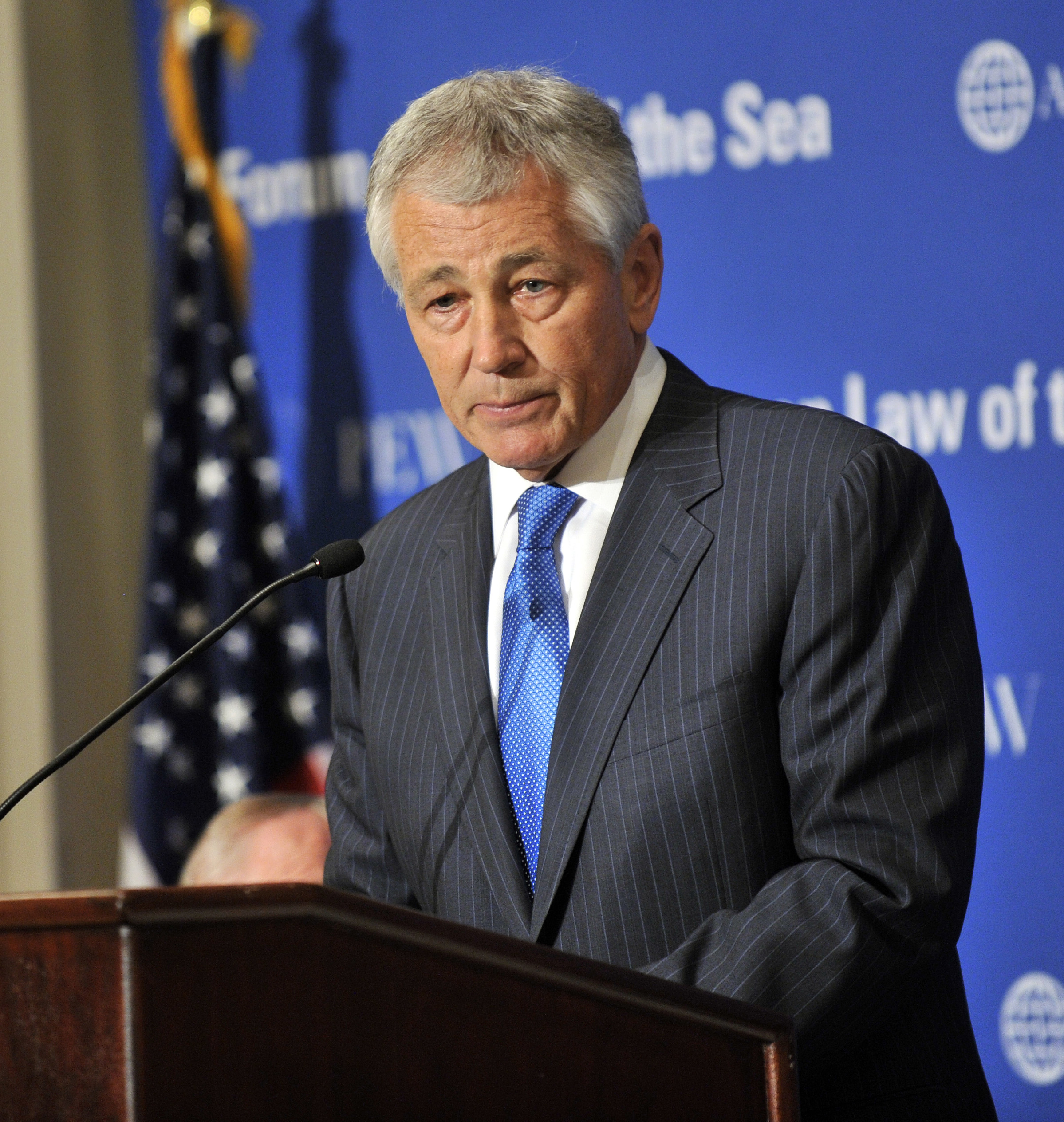 Former U.S. Sen. Chuck Hagel speaks at a forum for the Law of the Sea Convention in Washington, D.C., May 9, 2012.